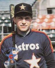 Professional baseball player Gary Cooper